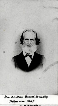 Protestant missionary to Thailand, Dan Beach Bradley. The file can be found here: Documentation on the source of the file can be found here